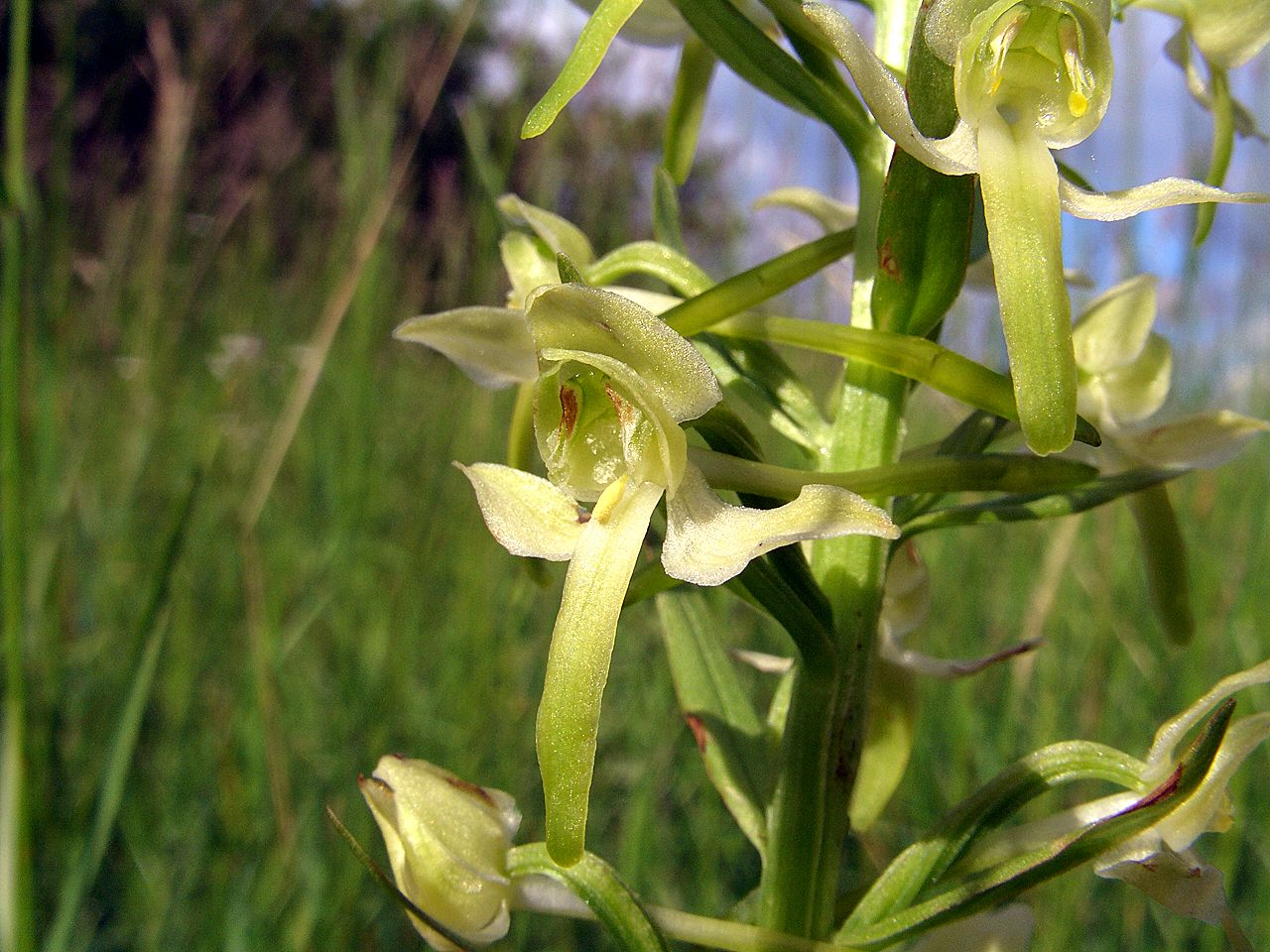 Platanthera chlorantha - flower